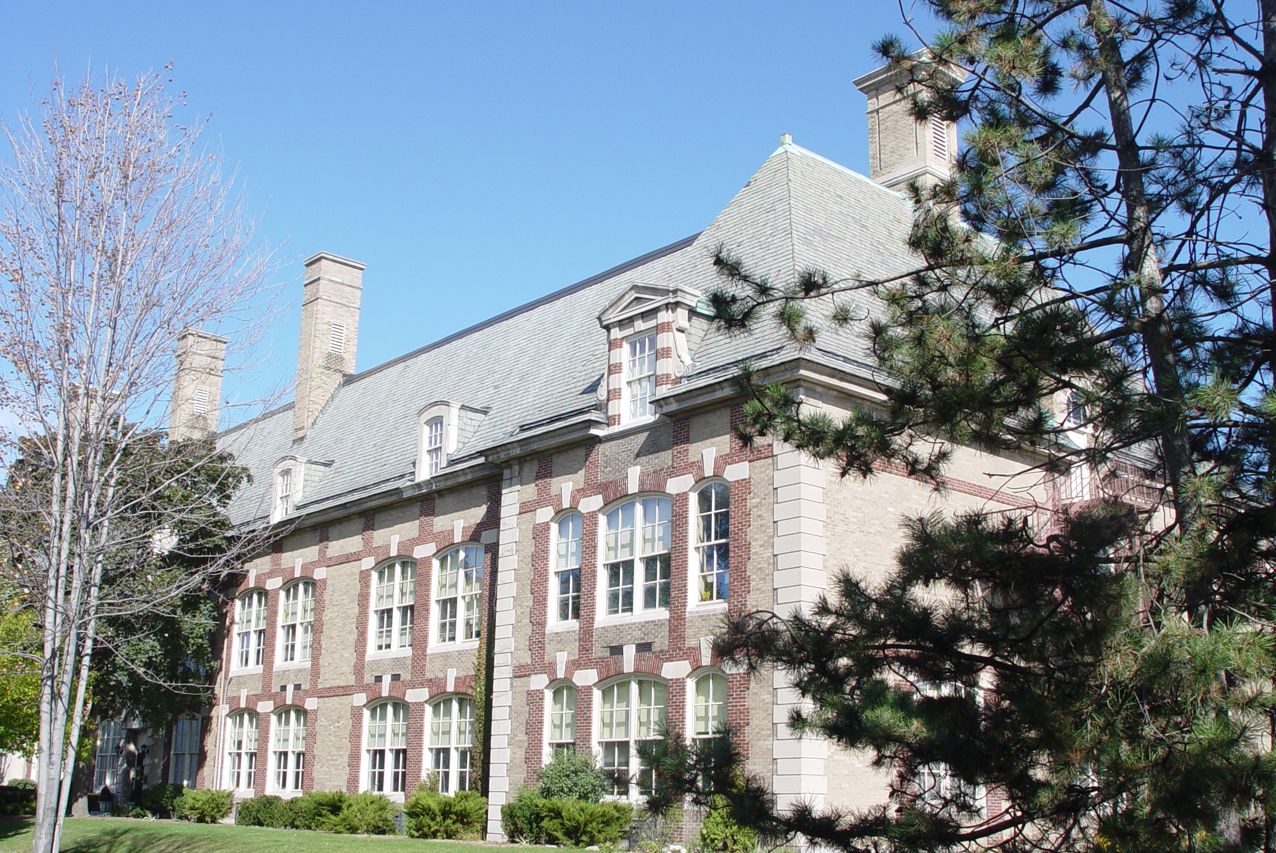 self-made Pere Gabriel Richard Elementary School, Wayne County, MI